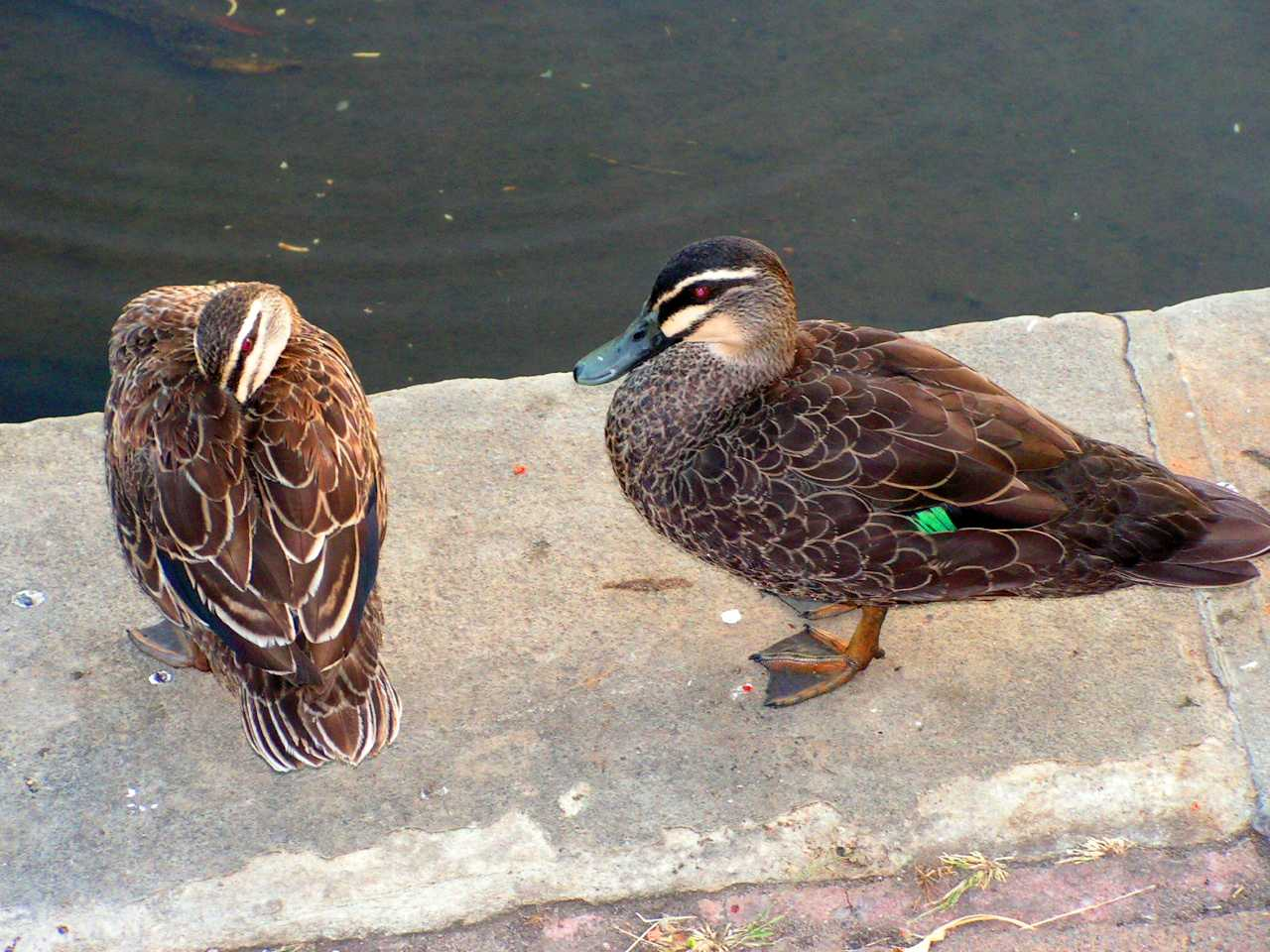 Pacific Black Ducks (Anas superciliosa), Sydney, NSW, Australia